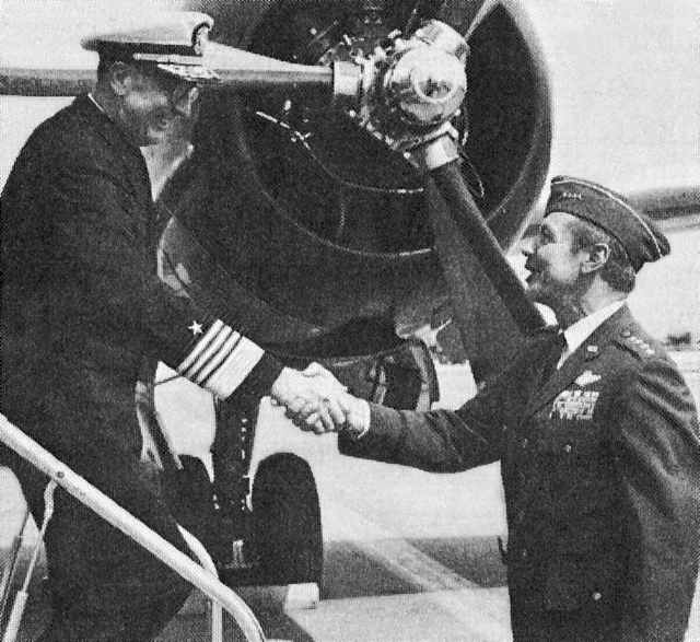 Adm. Waldemar F.A. Wendt (left), commander in chief, U.S. Naval Forces Europe, is greeted by Air Force Gen. David A. Burchinal, deputy commander in chief, U.S. European Command, as the admiral arrives for his first official calls at EUCOM headquarters in Stuttgart, Germany. Adm. Wendt assumed command of Naval Forces in Europe July 12.